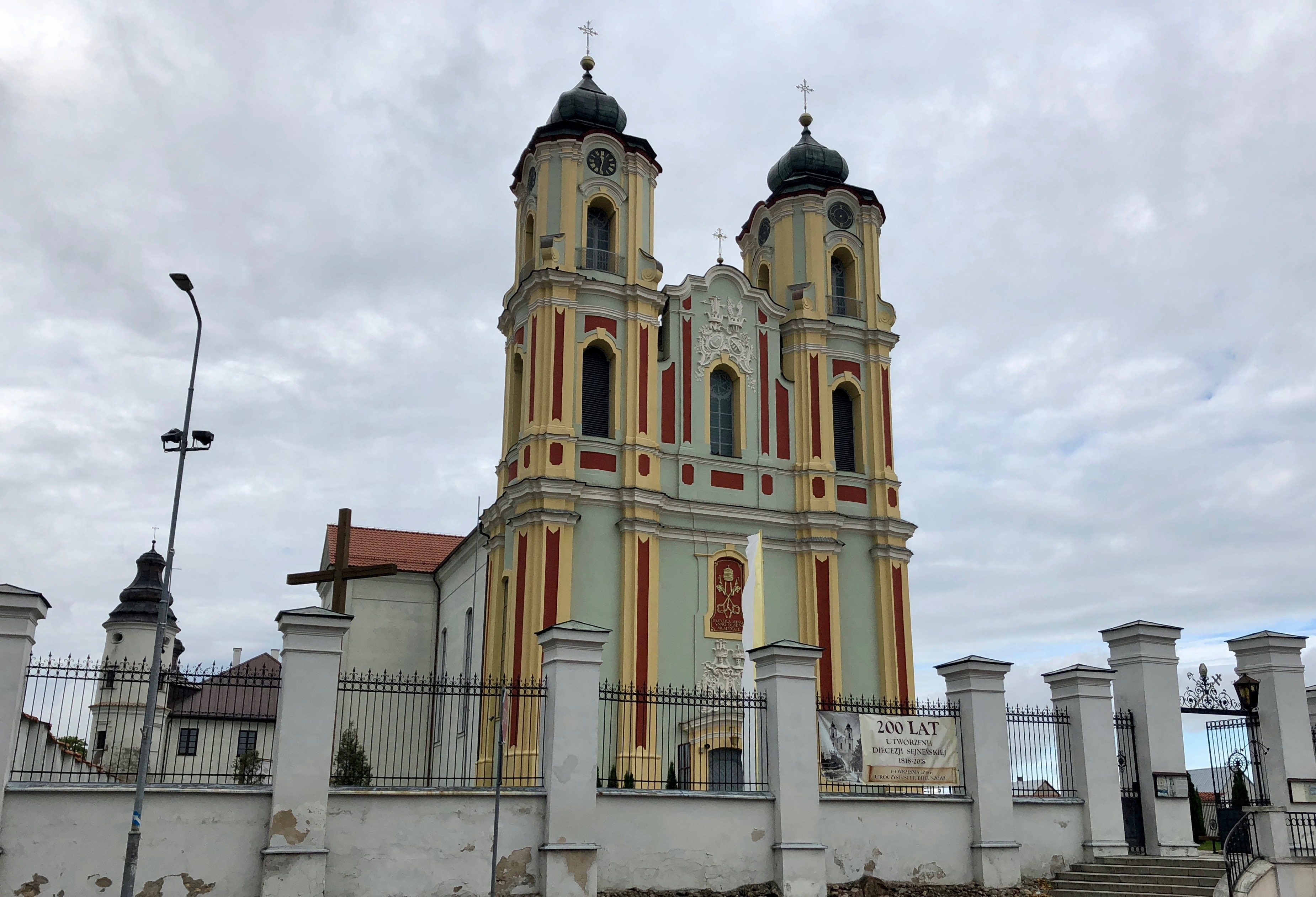 Church of the Visitation in Sejny